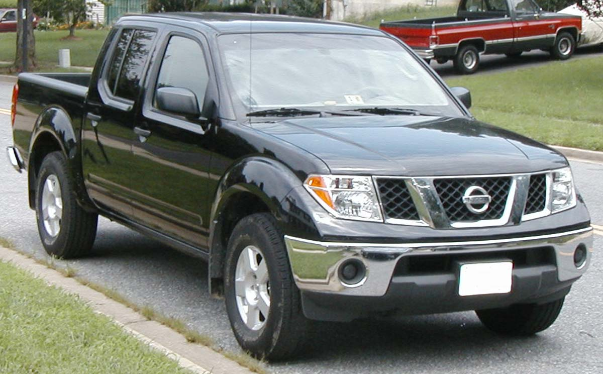 2005-2006 Nissan Frontier photographed in USA.